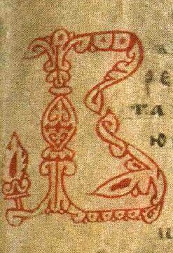 Archangel Gospel